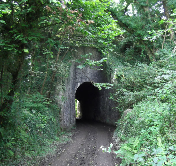 Photograph of the "tunnel" under the original Hayle Railway west of Penponds incline, Cornwall